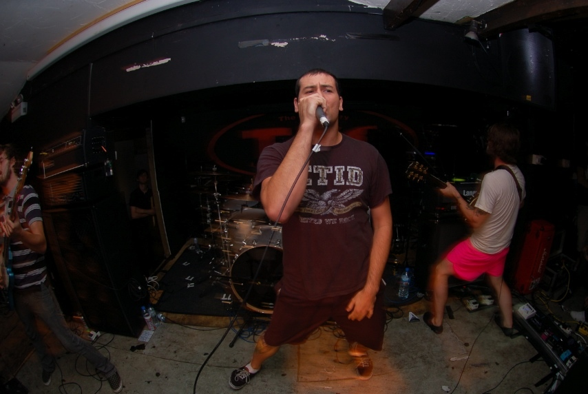 photo of the band Poison the Well